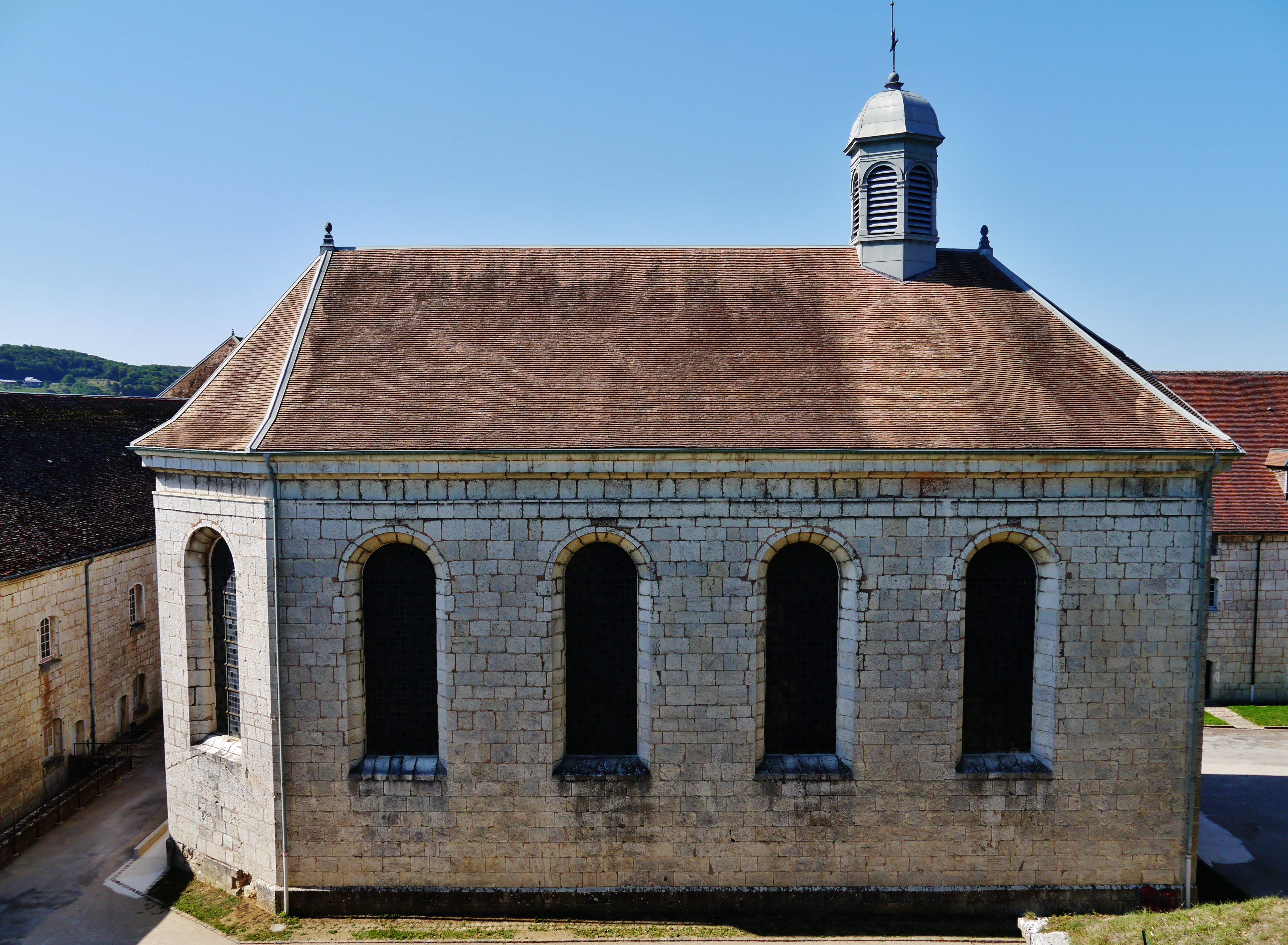 Chapel of the Citadel, Besancon, Département of Doubs, Region of Franche-Comté (now Burgundy-Franche-Comté), France